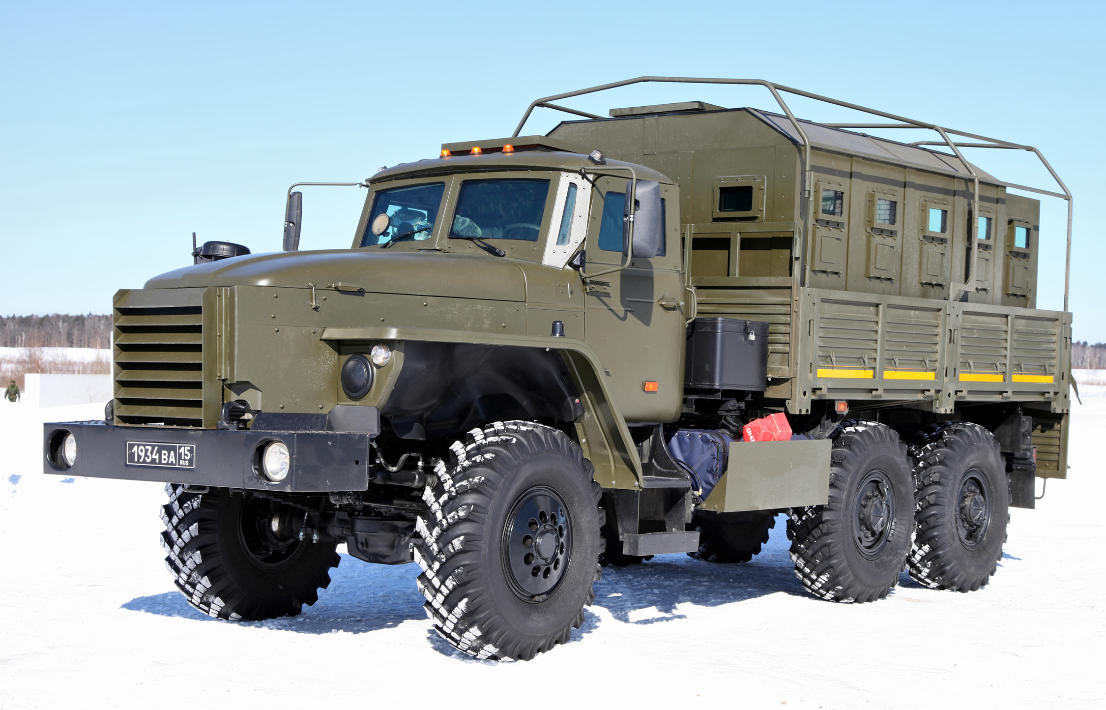 Ural-4320 Zvezda-V armored vehicle